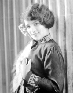 Joan Lowell, 1920, publicity photo published without copyright notice or other restriction. Source: New York Public Library